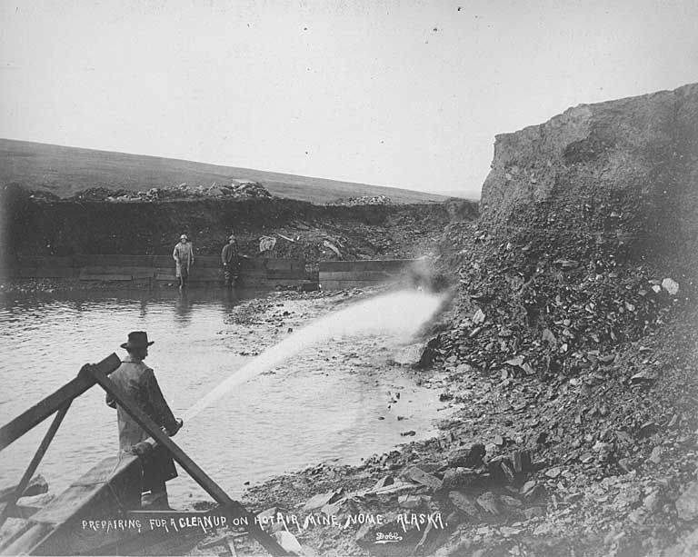 Caption on image: Preparing for cleanup on Hot Air mine. Nome Alaska. Dobbs. PH Coll 323.21 Beverly Bennett Dobbs was born in 1868 near Marshall, Missouri. In 1888 Dobbs moved to Bellingham, Washington and operated a photography studio there for 12 years. In 1900 Dobbs moved to Nome, Alaska and continued to work as a photographer capturing images of Nome, the Seward Peninsula, and Inuit people. In 1909, Dobbs started the Dobbs Alaska Moving Picture Co. and began making films about the Gold Rush. By 1914, Dobbs had moved back to Seattle and was creating more films through the Dobbs Totem Film Company which he ran until his death in 1937. Subjects (LCTGM): Hydraulic mining--Alaska--Nome; Miners--Alaska--Nome Subjects (LCSH): Hot Air Mining Company